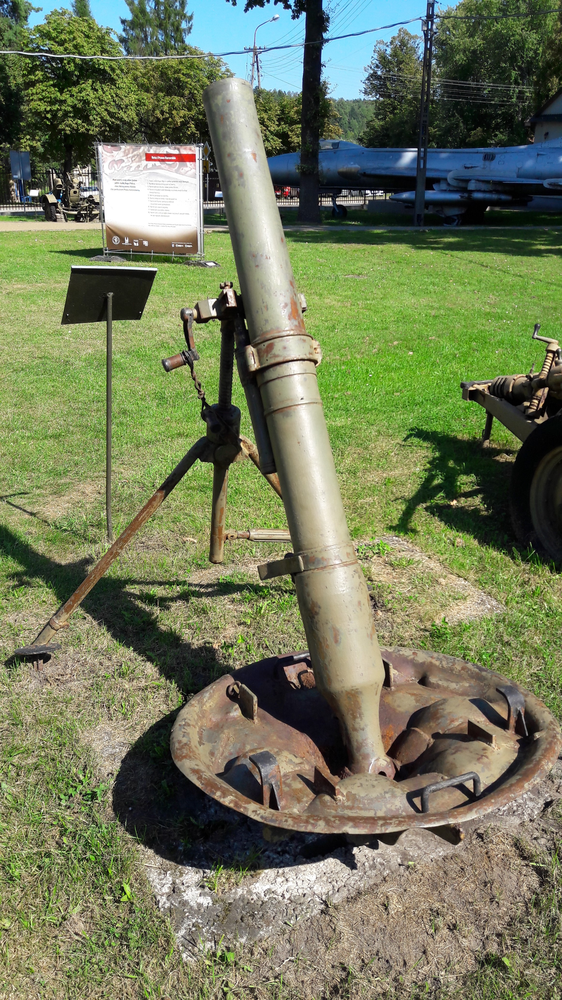 107mm M1938 mortar, back view